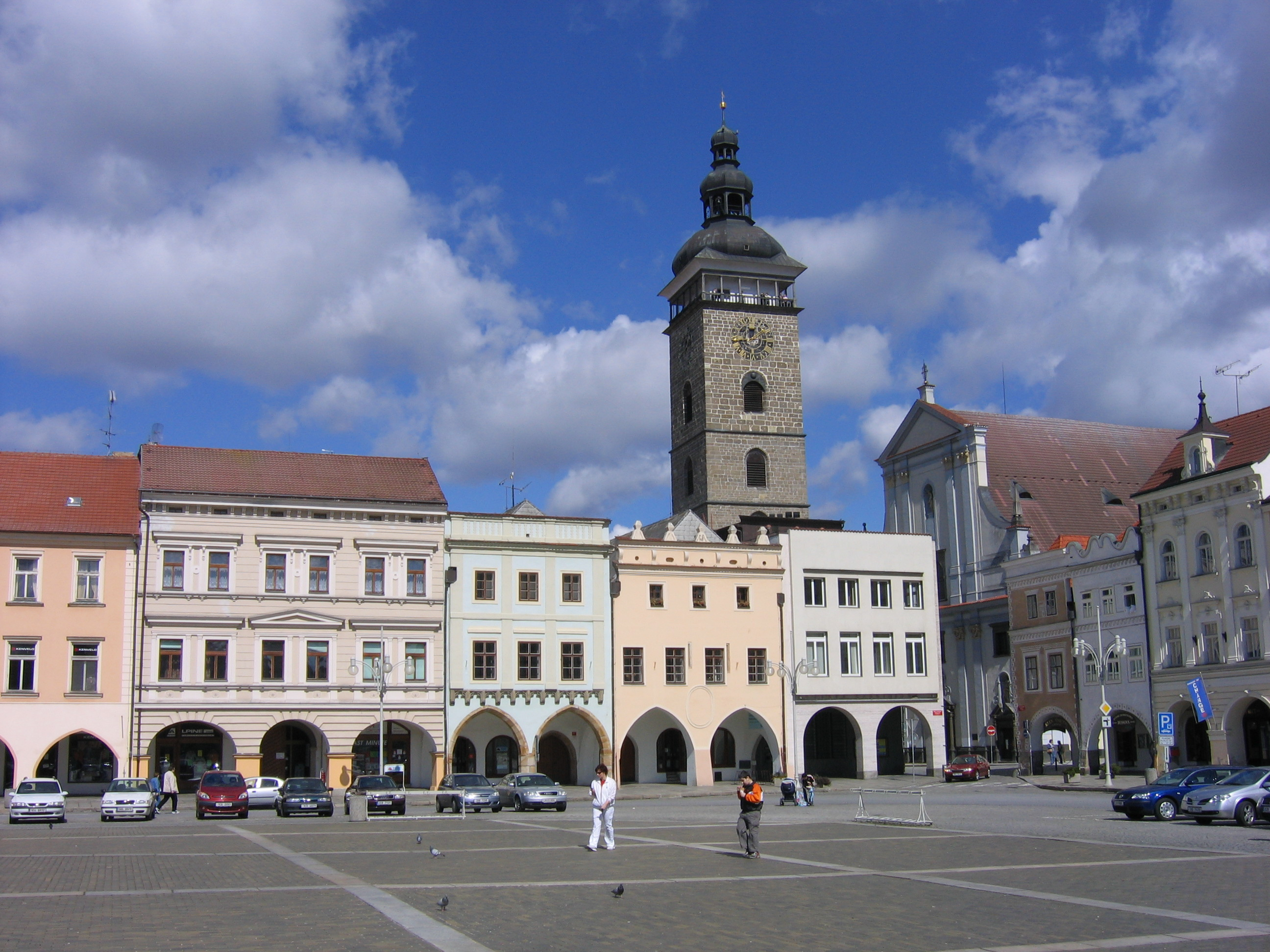 View of St. Nicolas Cathetral and the Black Tower in náměstí Přemysla Otakara II. (Přemysl Otakar II Square), České Budějovice, Czech Republic.